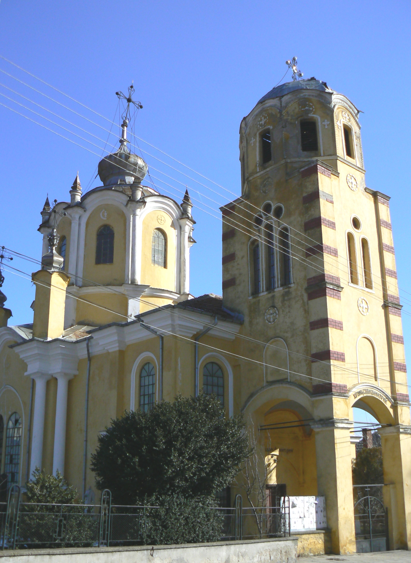 Church "Saint Dimiter", Muglij, Bulgaria